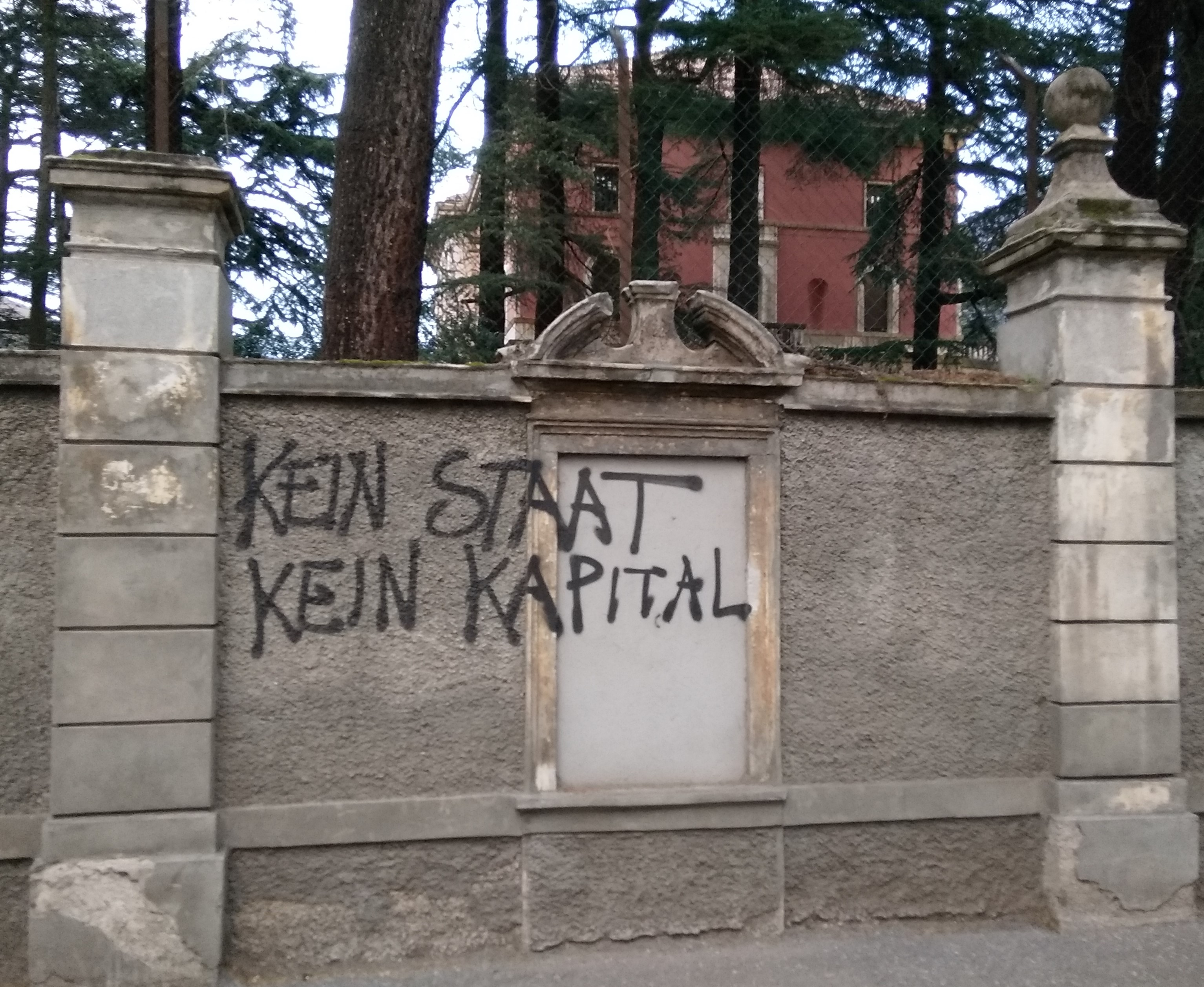 Anti-capitalist Graffiti on a Bozen-Bolzano wall 2018